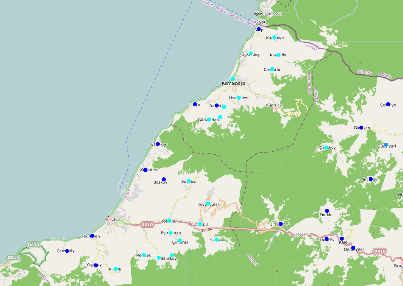 Map of Hopa Hemshin settlements. Turquoise: Hemshin people Dark blue: Laz Light blue: Georgians